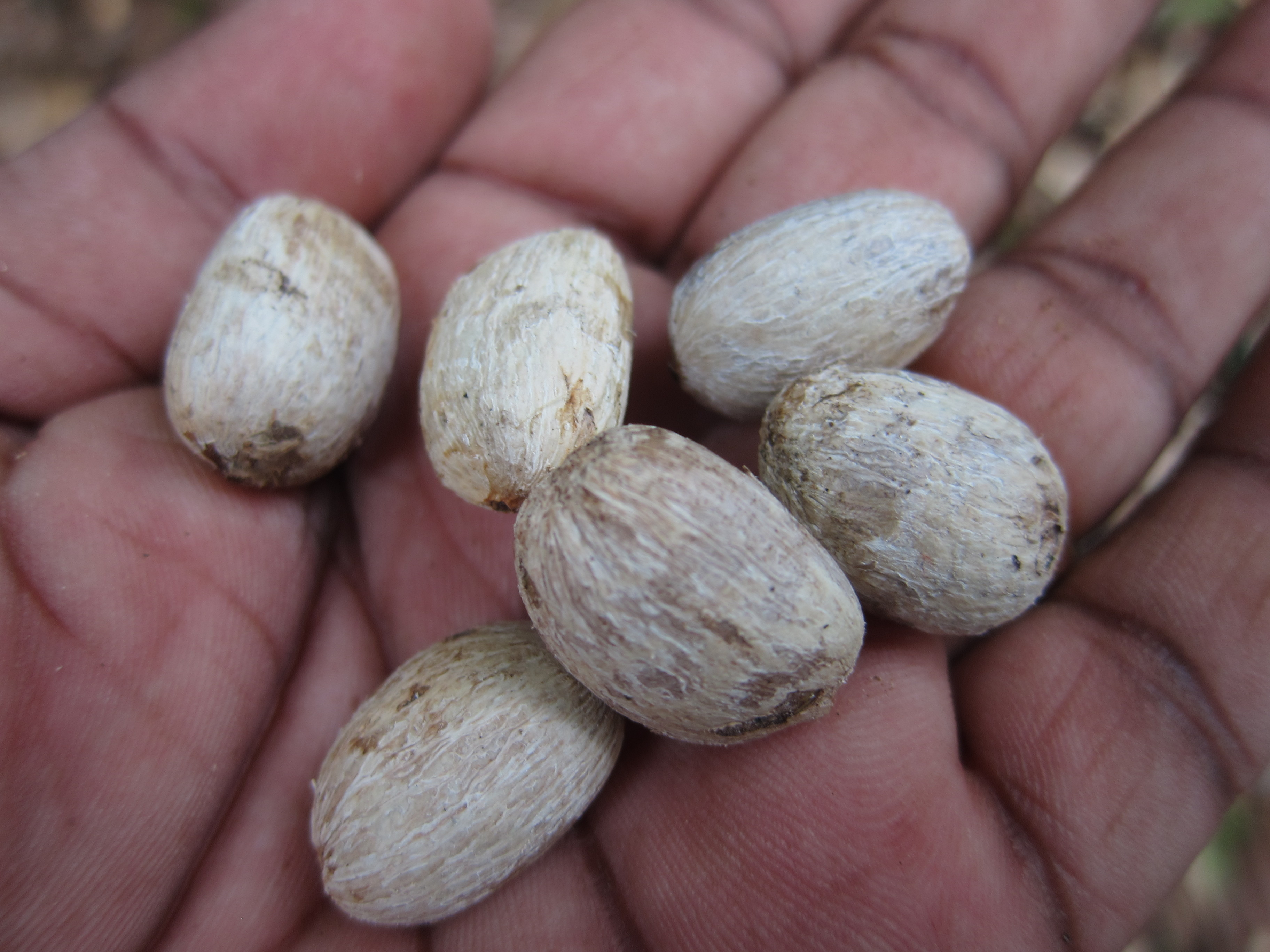 Rambutan - റംബൂട്ടാൻ